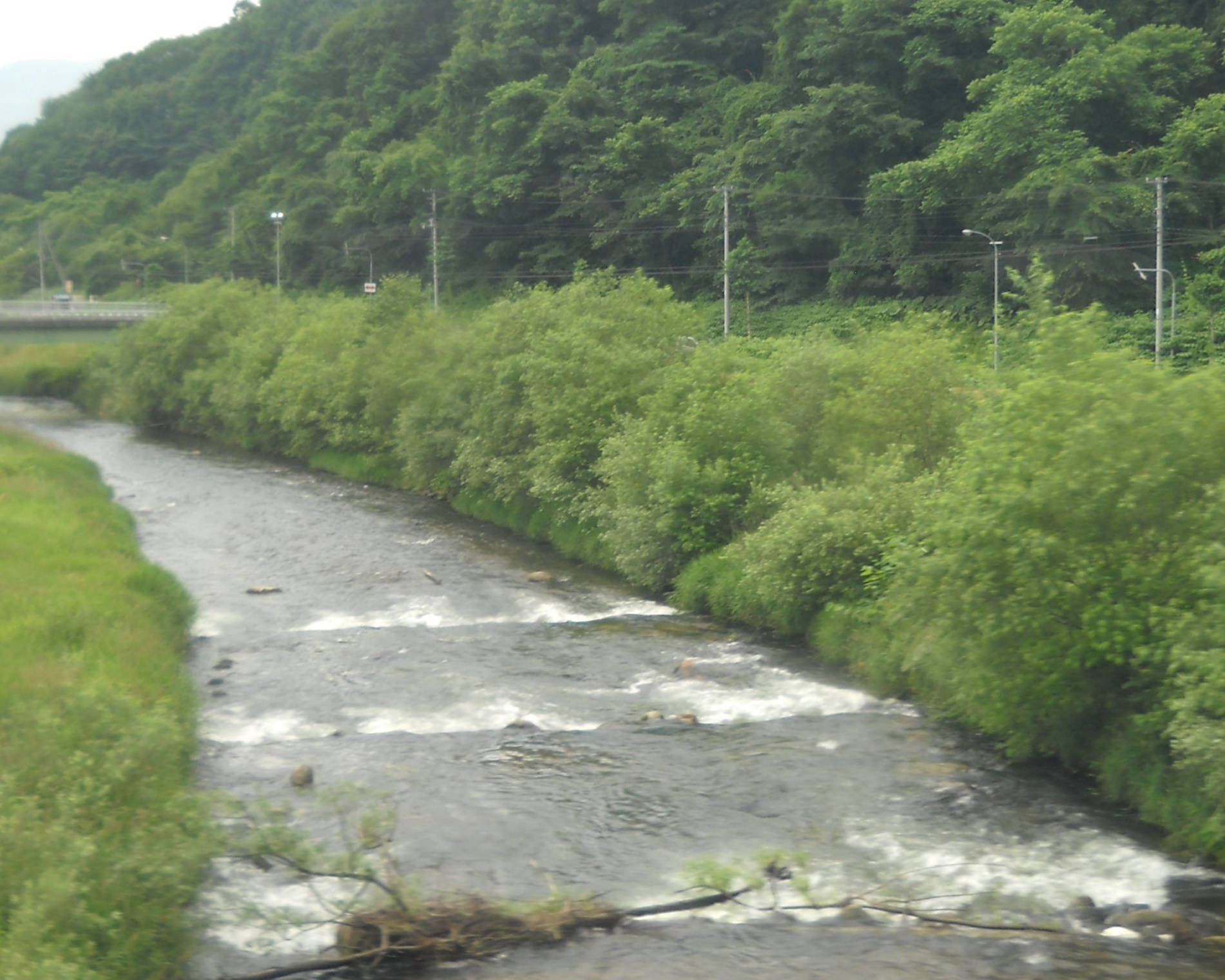 Sahoro river, Shintoku town, Hokkaido, Japan